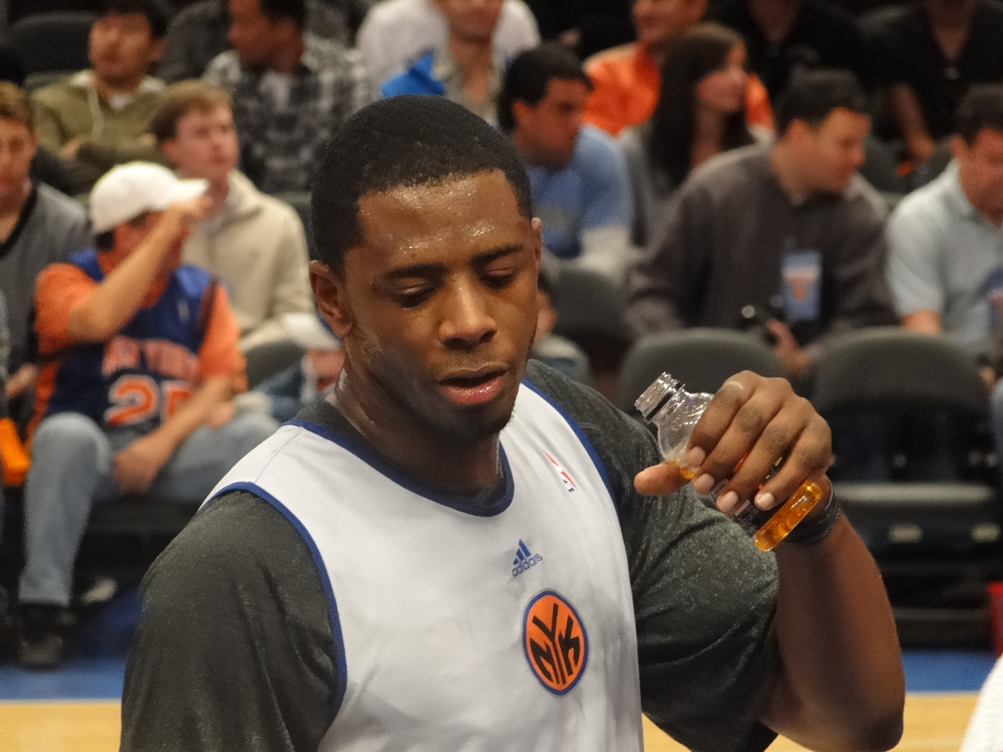 Patrick Ewing, Jr. of the New York Knicks.